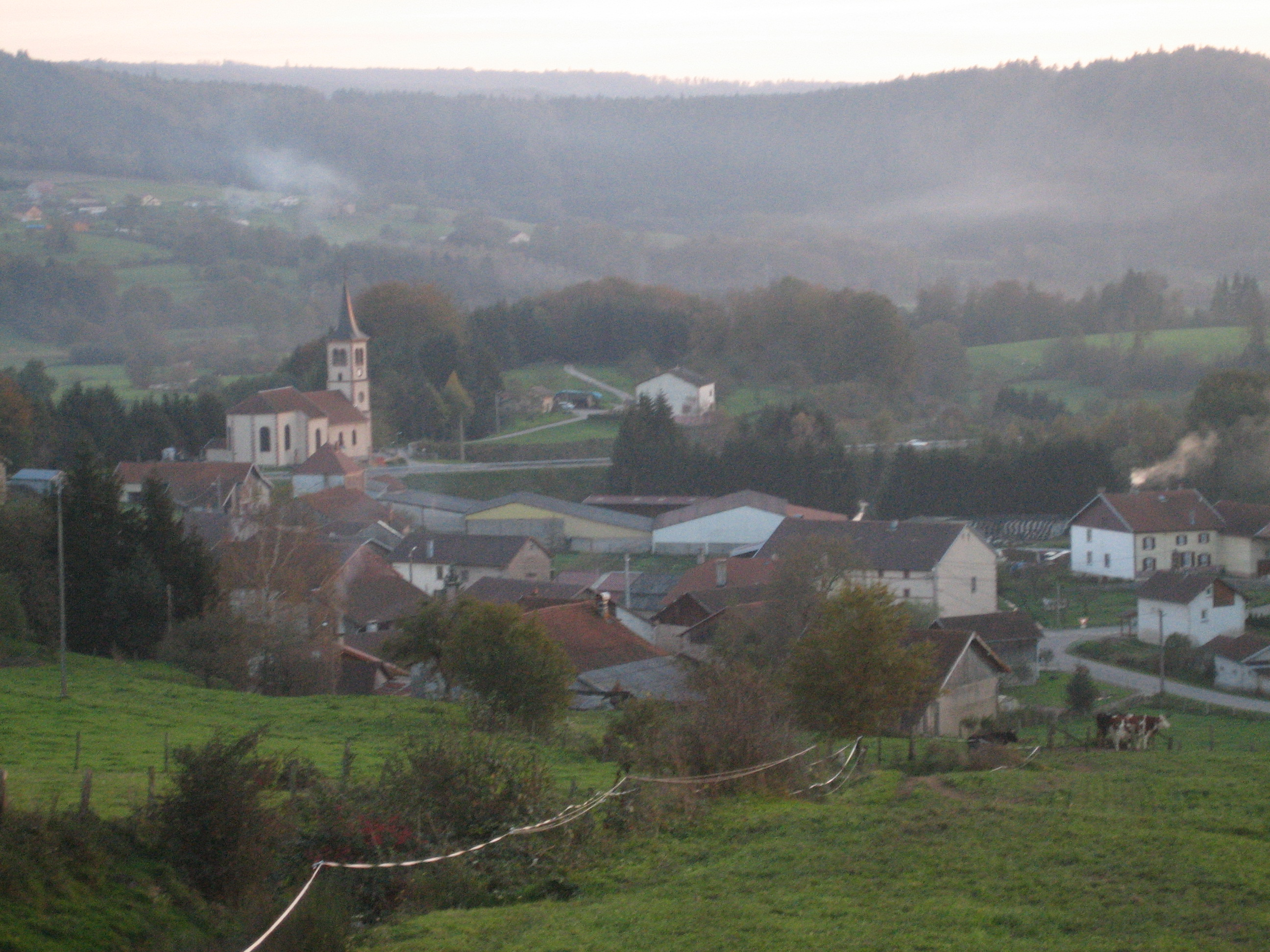 View of the center of Deycimont taken on saturday the 4th of november 2006, by Raphaël Tassin (raphdvoj)